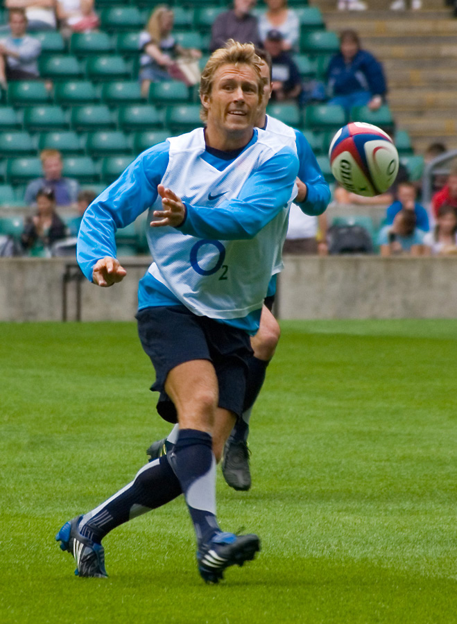 Jonny Wilkinson with English team training session in Twickenham stadium